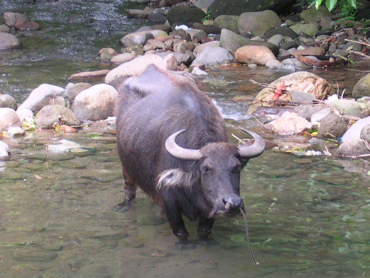 A carabao in Dumaguete City, Negros Oriental, Philippines